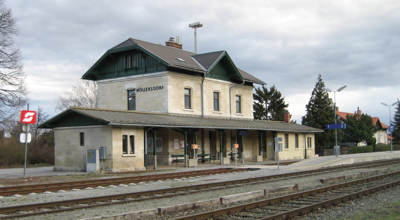 train station Wöllersdorf in Lower Austria